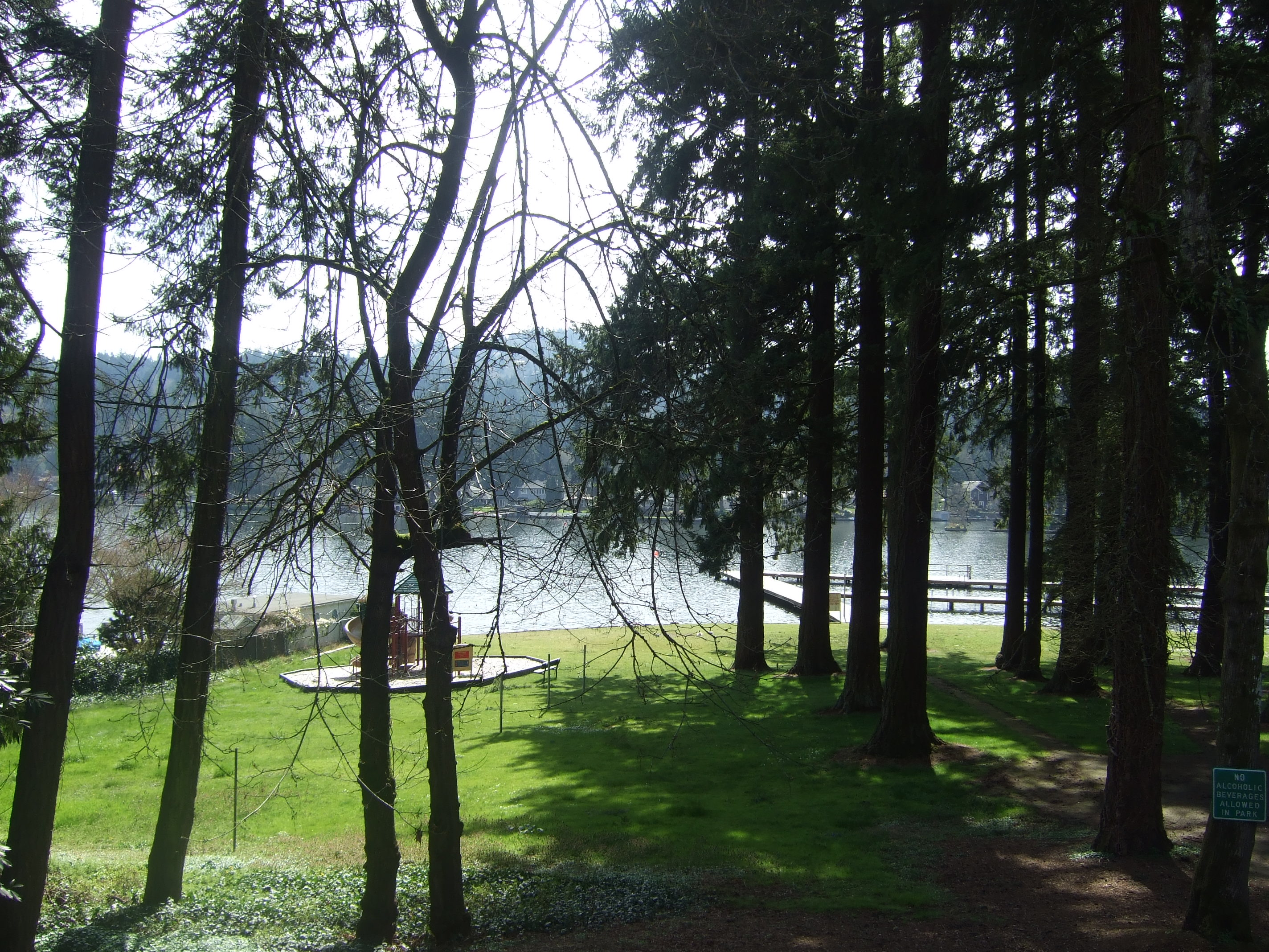 Lake Grove Swim Park, Oswego Lake, Oregon, April 2008